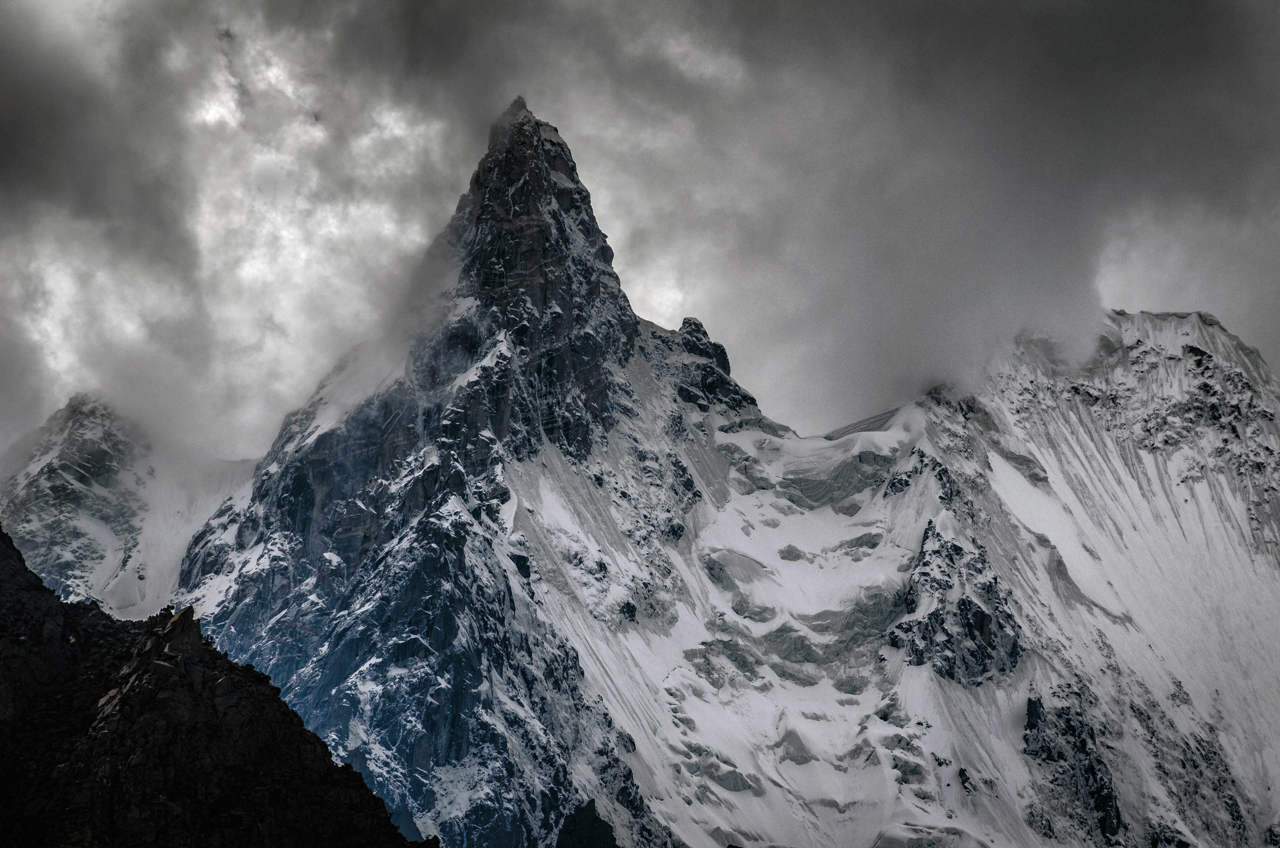 Gulmit tower hunza valley